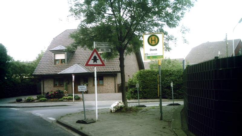 Bus Stop in Donk, Neuwerk, Mönchengladbach, Germany